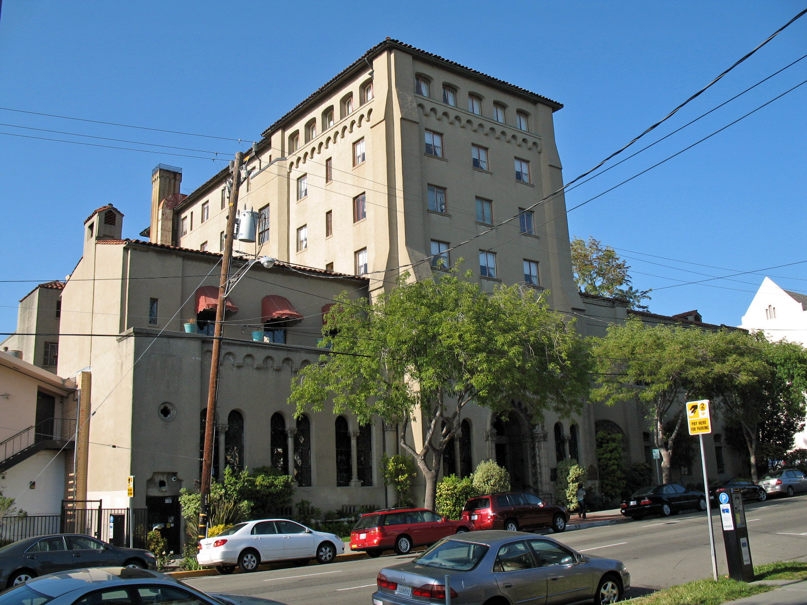 National Register of Historic Places listings in Alameda County, California. Berkeley Women's City Club, 2315 Durant Ave., Berkeley, CA. Photographed 2009-04-26 from the south side of Durant Ave. between Ellsworth and Dana Sts.